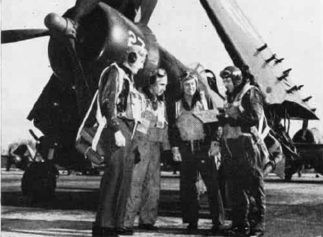 The squadron commander of U.S. Marine Corps fighter squadron VMF-251 briefs pilots at Naval Air Station Grosse Ile, Michigan (USA), in 1948. Pilots : CO Maj. A. Carlton (right), Lt. W. Goodson, Lt. J. Neumaier, and Lt. V. Wieczorek. From 1946 to 1950 VMF-251 was a Marine Corps Reserve squadron.